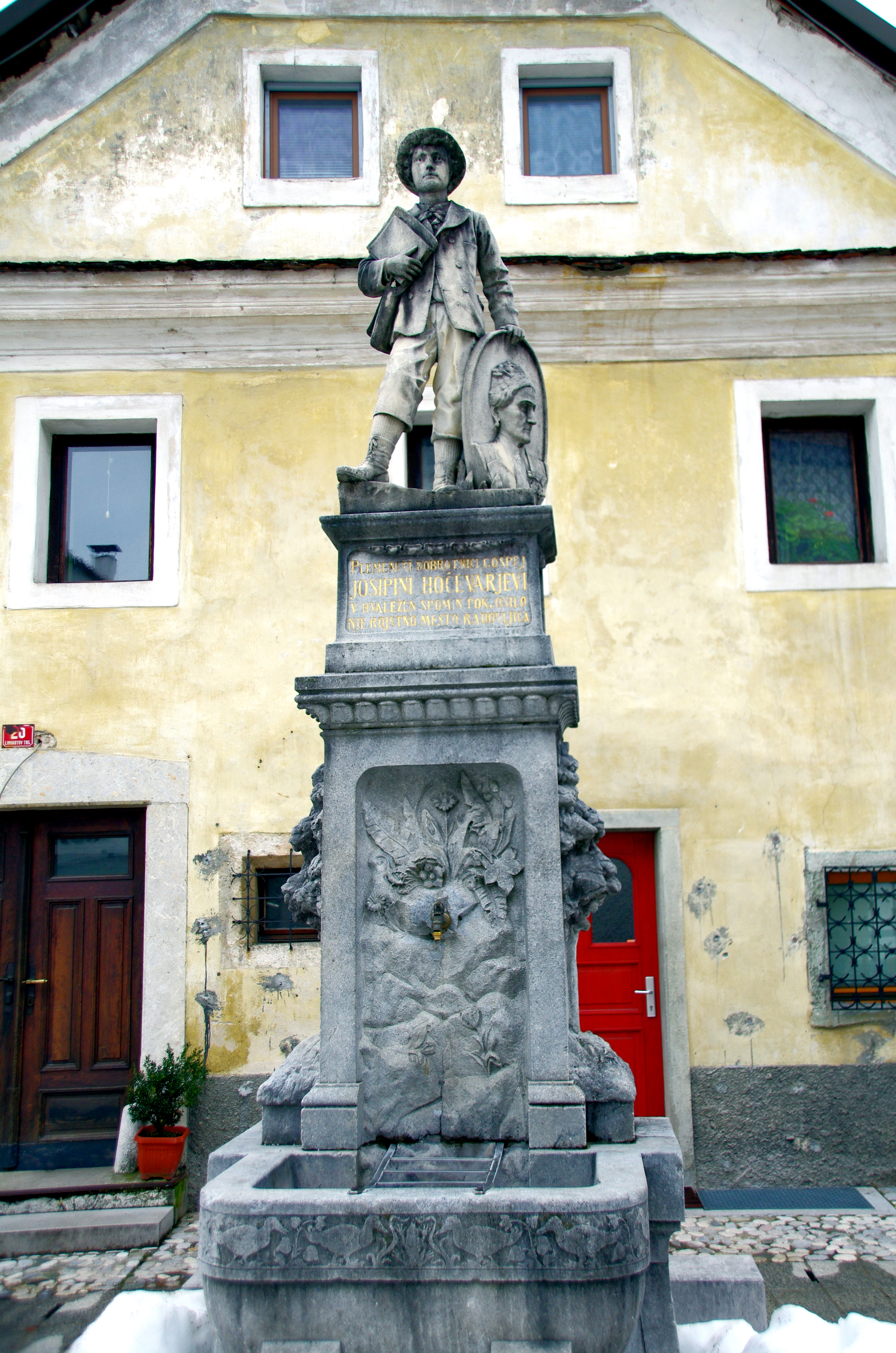 The monument to Josipina Hočevar, a businesswoman and patron of the arts, in Radovljica. The monument was unveiled in 1908.